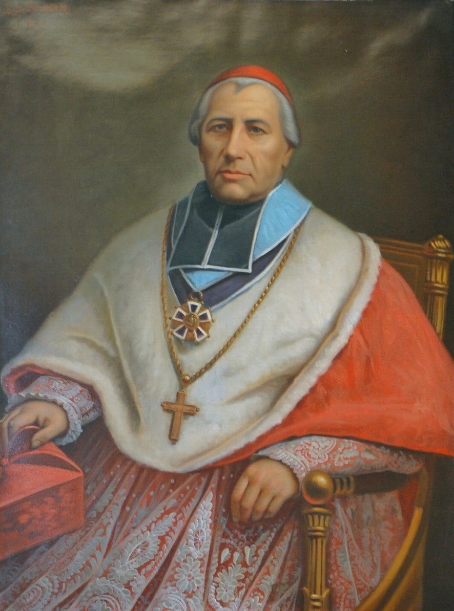 François-Nicolas-Madeleine Morlot (1795-1862) was a French Catholic Archbishop of Paris